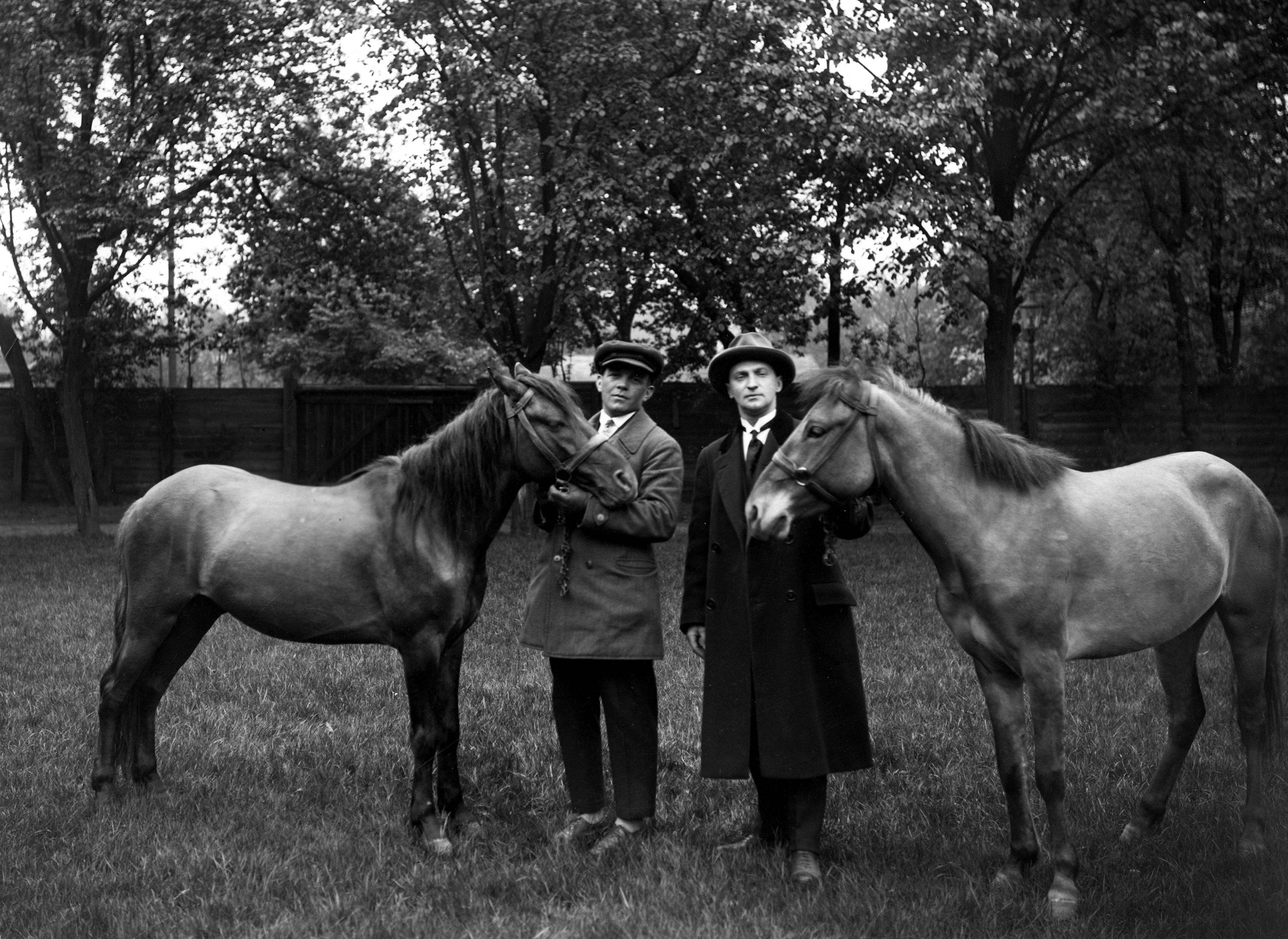 A rally of Polish horses (koniki polskie) from Biłgoraj to Poznań for testing their endurance for the needs of the army. Poviat veterinary doctor from Biłgoraj Ludwik Remiszewski (left) and organizer of the rally Tadeusz Vetulani holding Polish ponies for the bridles.